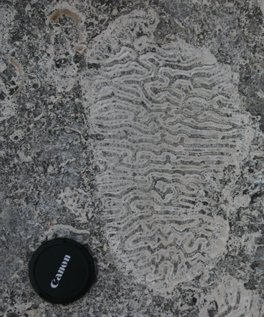 Photograph of cut slab of keystone at the Hurricane Monument in the Florida Keys. Lenscap 5.8 cm diameter. Taken by Jim Stuby (talk) 04:05, 22 March 2008 (UTC)